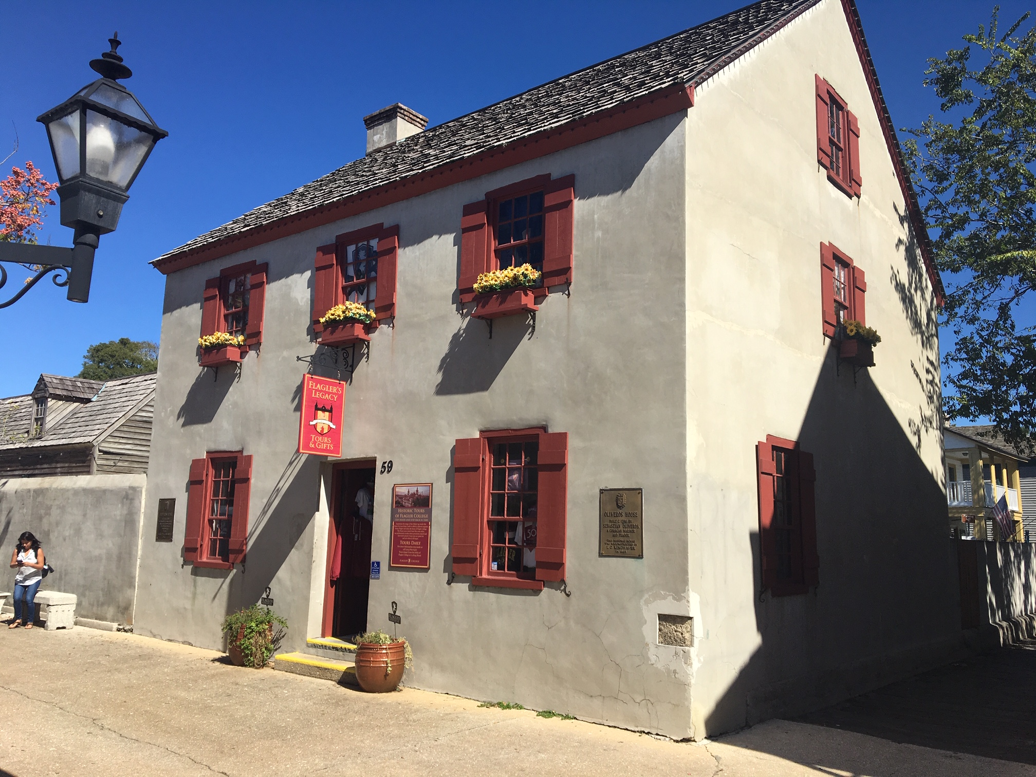 Photo of the Oliveros House, on the corner of St. George Street and Cuna Street in St. Augustine, Florida